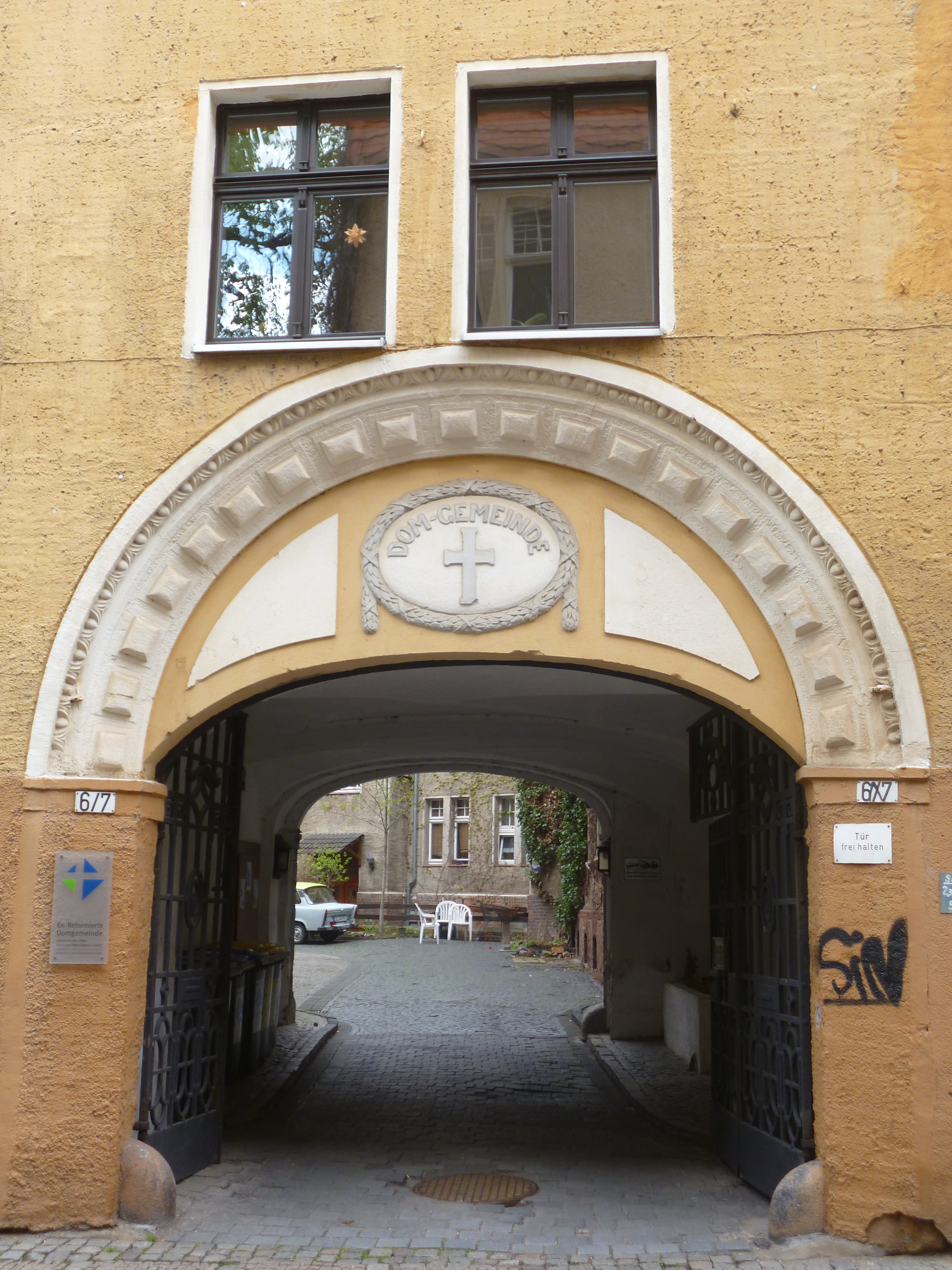 Portal of the house No.6-7, Kleine Klausstraße, Halle (Saale)